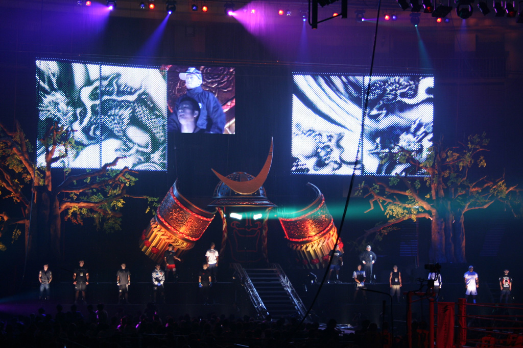 A ring introduction in Pride Fighting Championships.